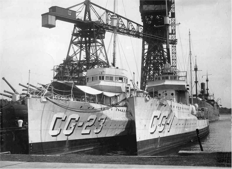 USCGC Tucker (CG-23), left, and USCGC Cassin (CG-1), part of the United States Coast Guard's "Rum Patrol" during Prohibition in the United States